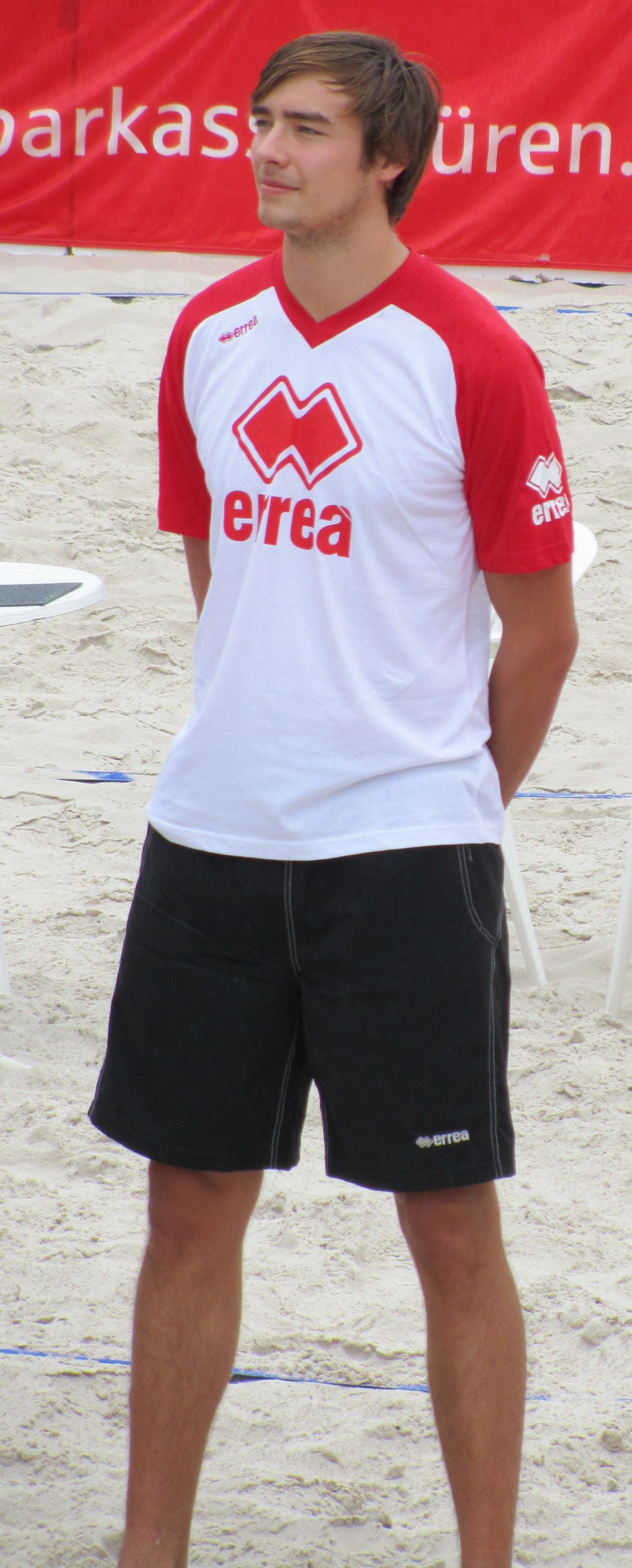 the German volleyball player Georg Klein at the team presentation of evivo Düren